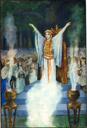 Illustration by Czech painter Artuš Scheiner for Julius Zeyer’s Vyšehrad